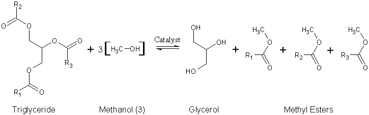 Transesterification Biodiesel Reaction 2